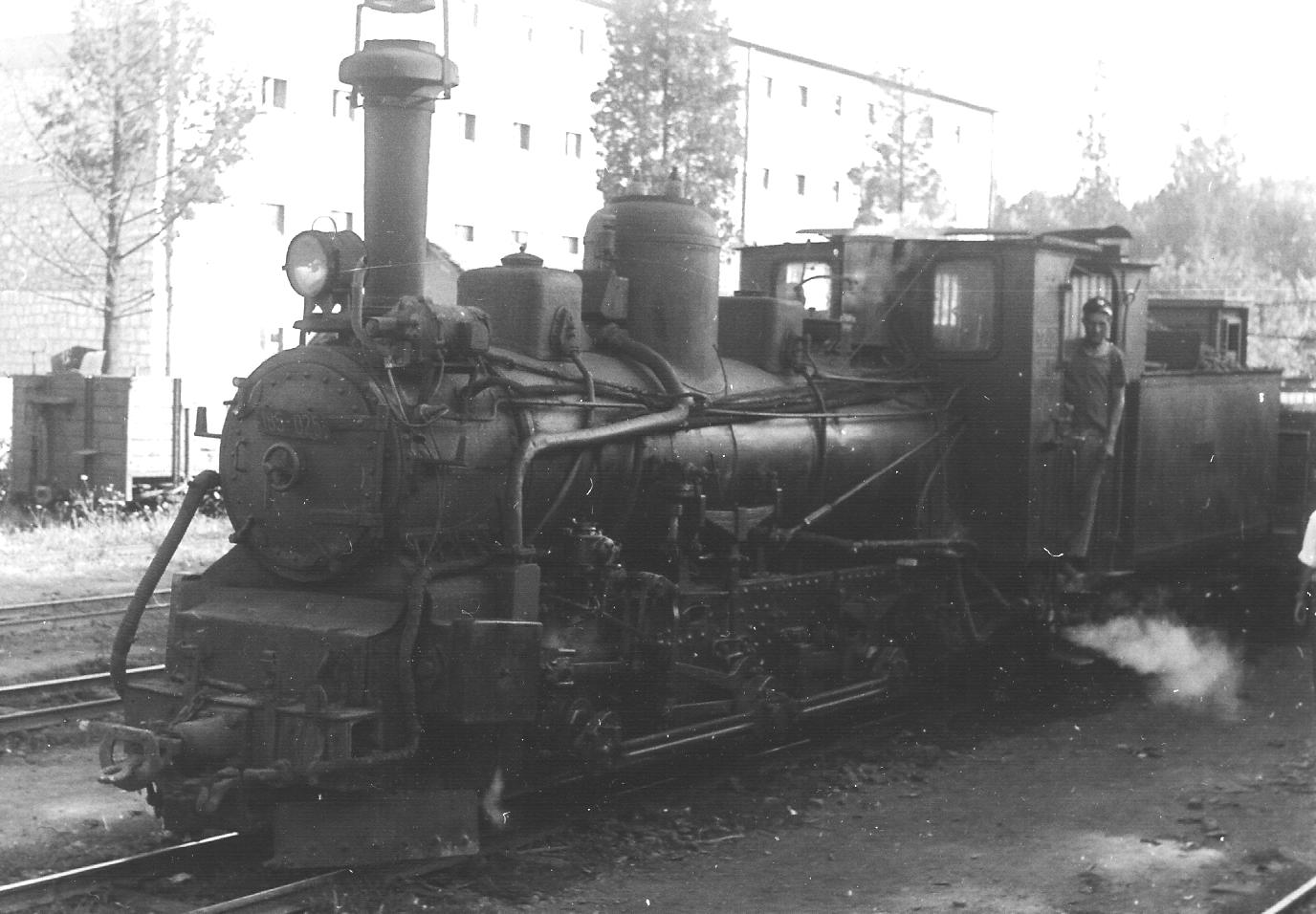 Klose narrow gauge locomotive 185-025 at Capljina. Radial gear removed